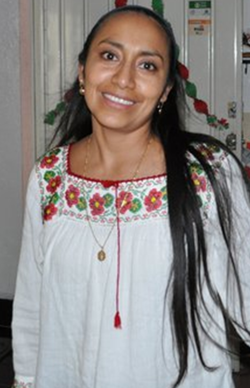 A mexican actress Mayra Serbulo.